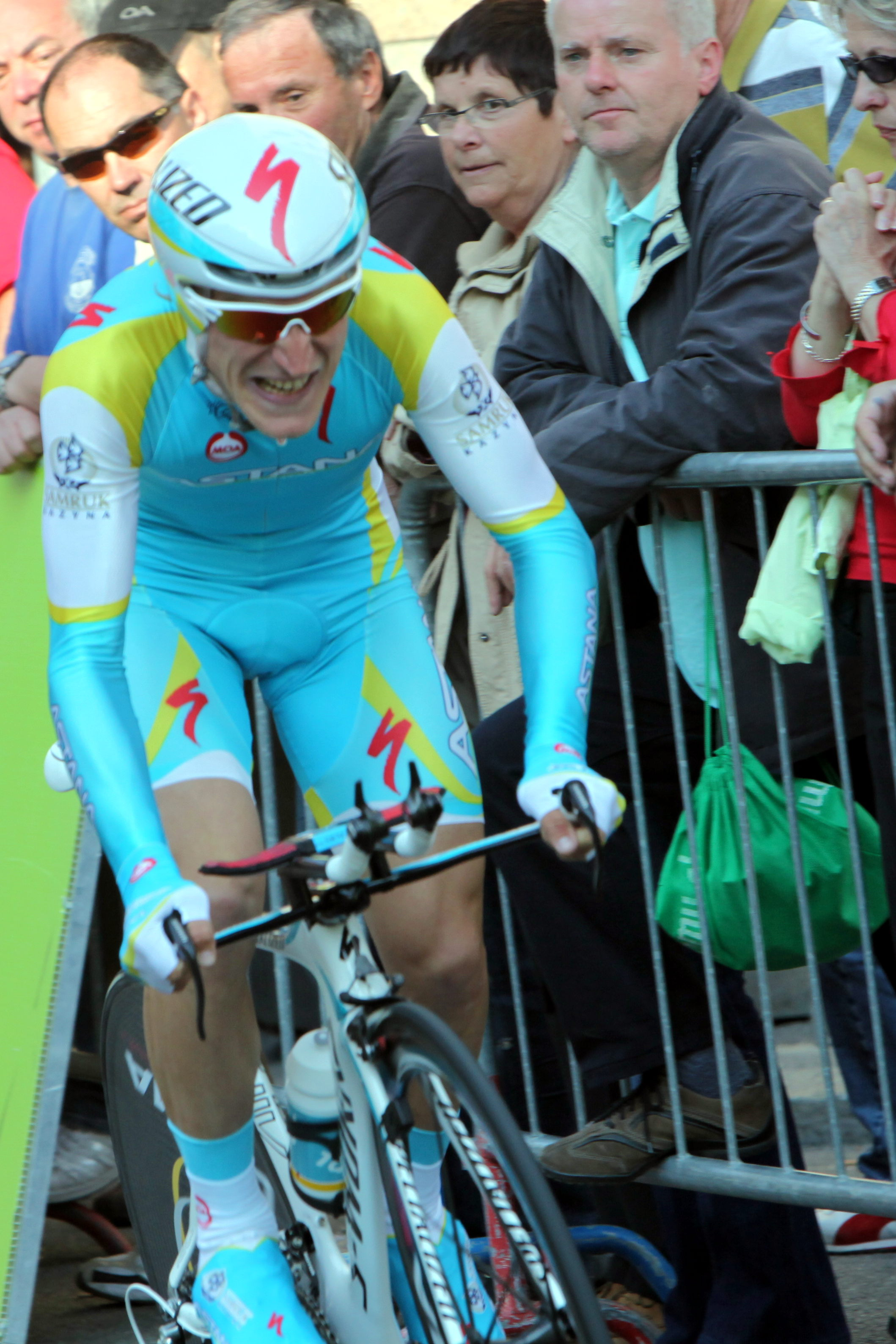 Enrico Gasparotto at the prologue of the Tour de Romandie 2011